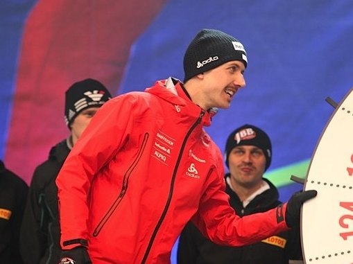 Simon Ammann during Adam's Bull's Eye on 26 March, 2011 in Zakopane.